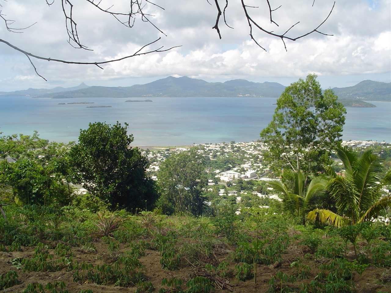 Grande Terre from La Vigie (Mayotte)